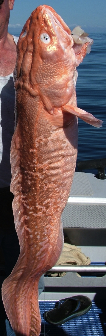 Ling, also called a Cusk Eel, caught off the Northland Coast of New Zealand.